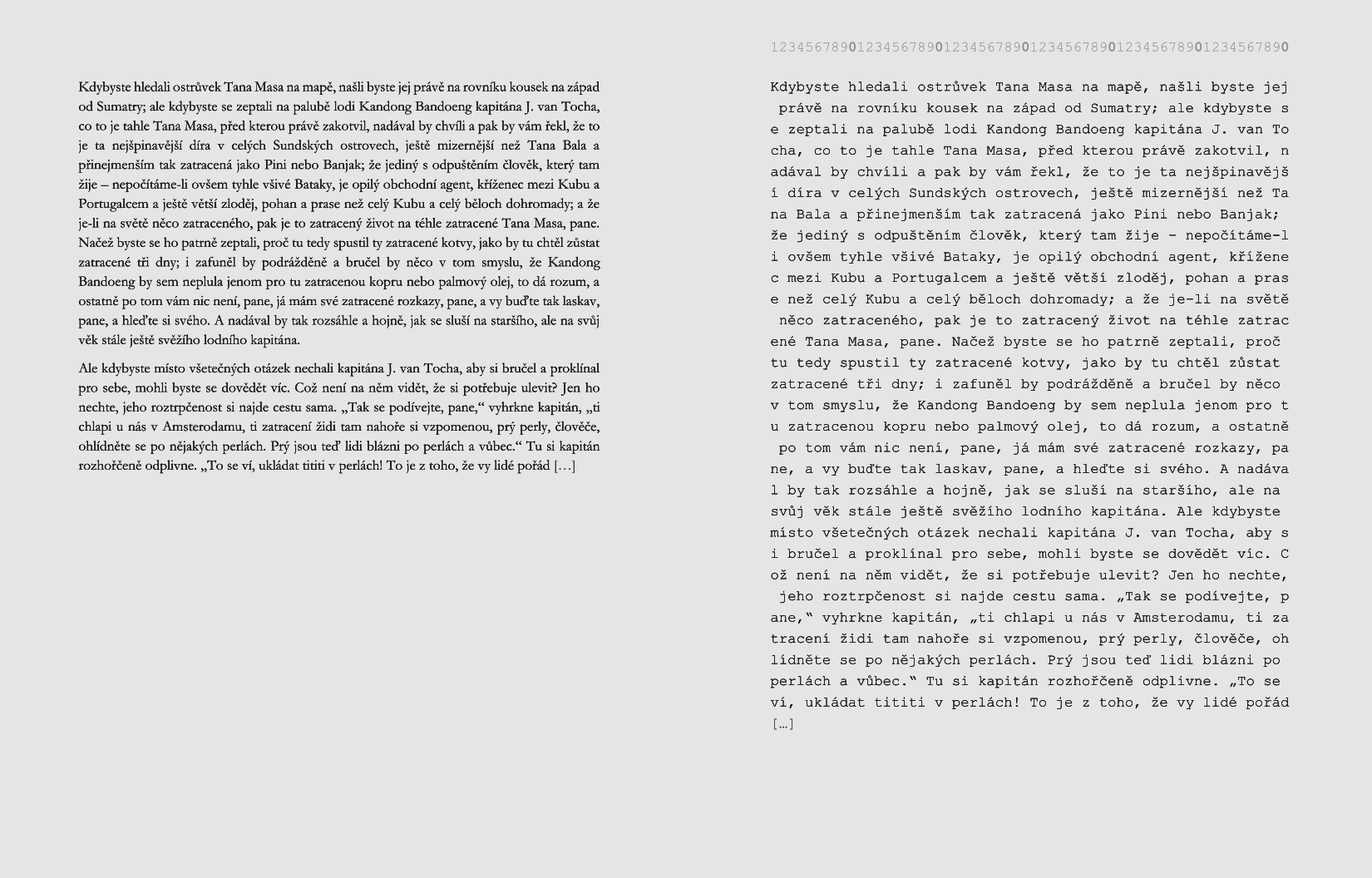 Standard page (1800 characters including spaces) in two layouts: one common text, another exact alignment into 60×30 grid of monospaced text.